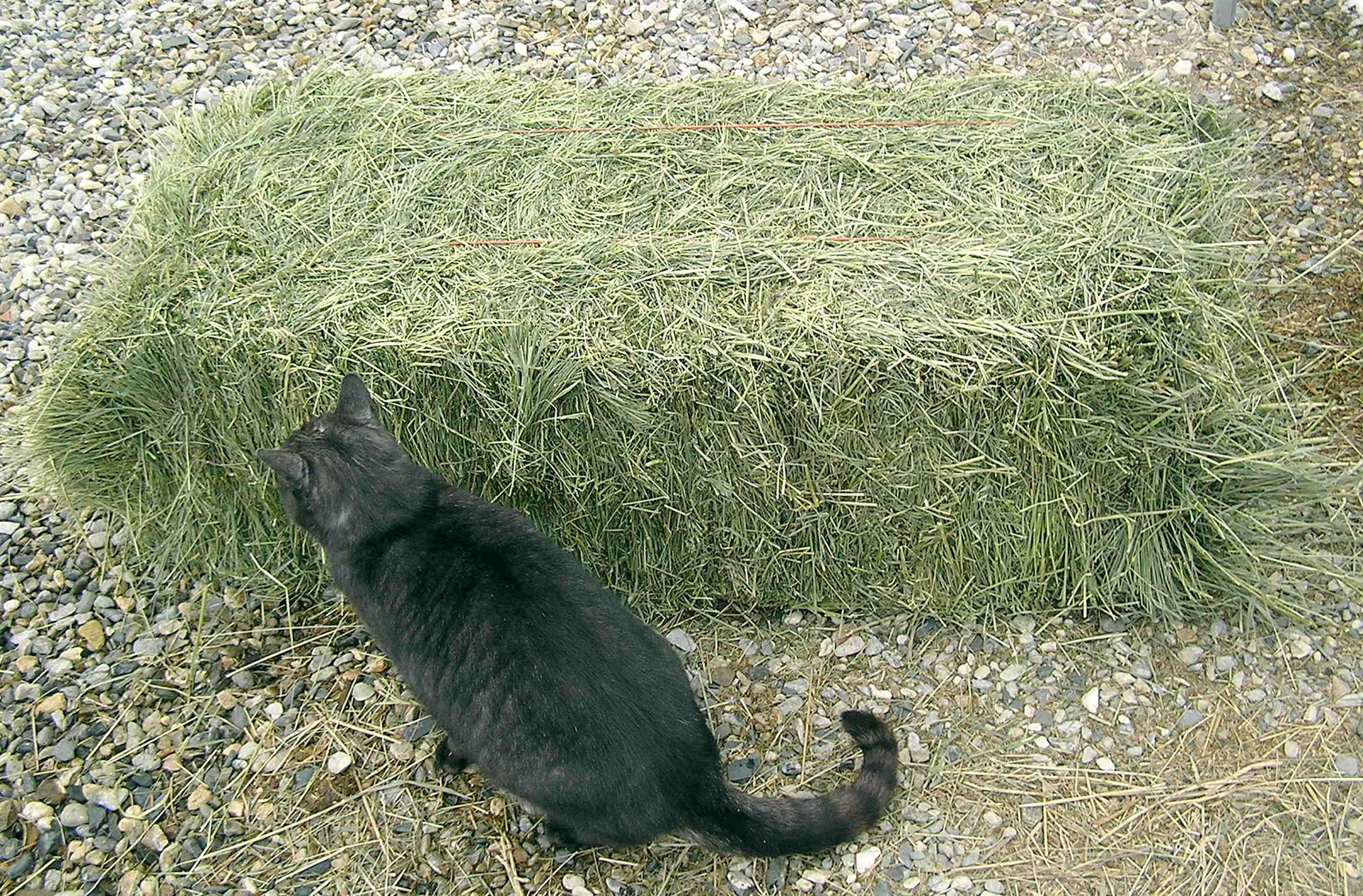 A bale of grass hay and a barn cat